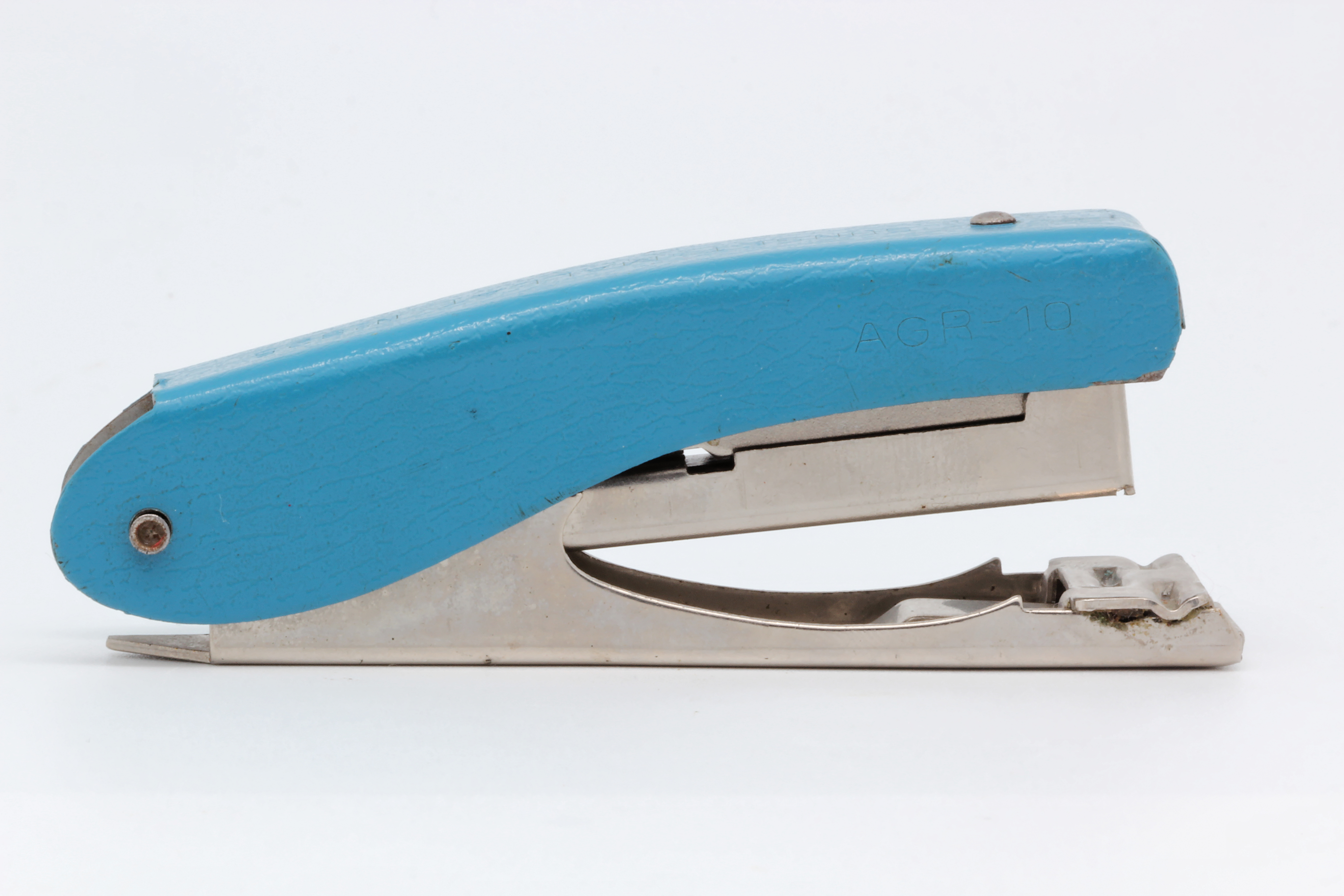 stapler